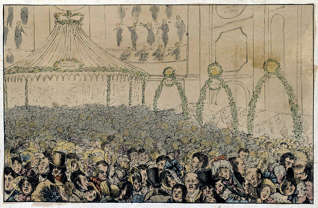 A theatre audience, 19th century; hand-coloured etching Victoria and Albert Museum, London, Museum number: S.384-2009